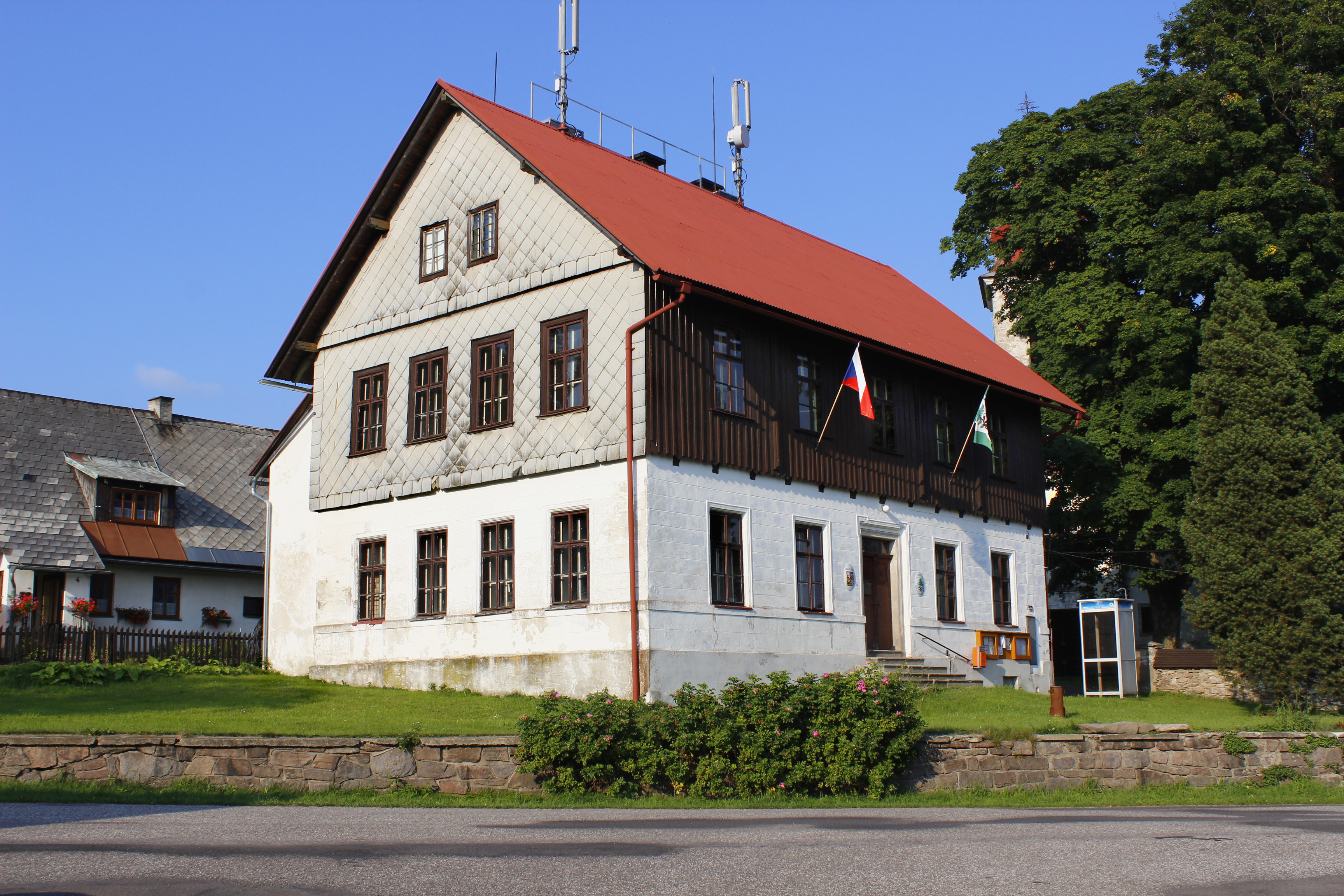 Municipal office in Říčky v Orlických horách, Czech Republic